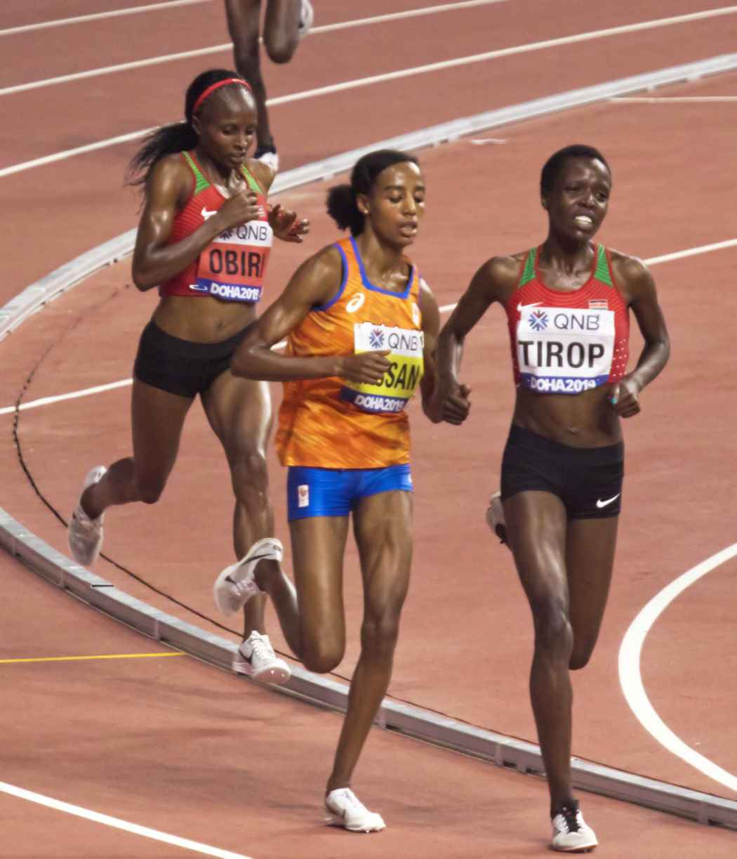 The final of the women's 10,000 metres at the 2019 World Athletics Championships.